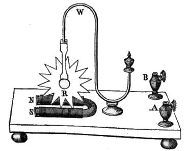 Barlow's wheel - diagram from the 1842 edition of the Manual of Magnetism, pg 94